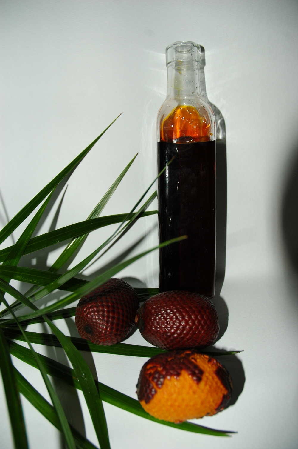 Buriti oil